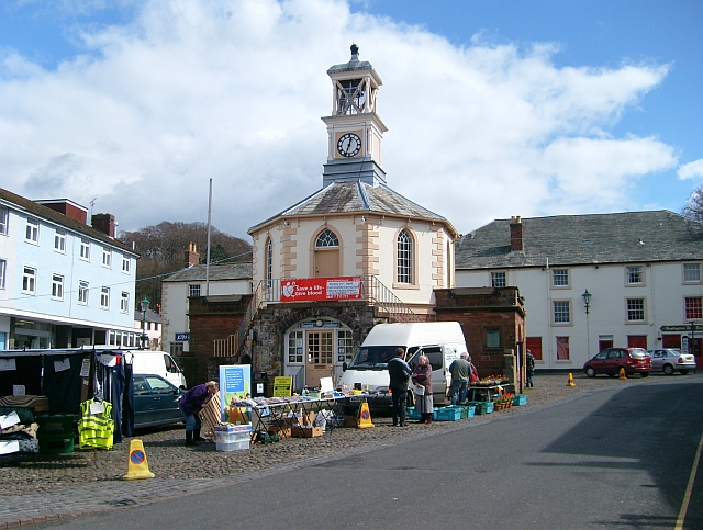 Brampton, Market Place A small market is held here every wednesday, and a farmers' market on the last saturday in the month. A market charter was first granted to the town in 1252 by Henry III. The octagonal building is the Moot Hall, built in 1817, which today houses the Tourist Information Centre.